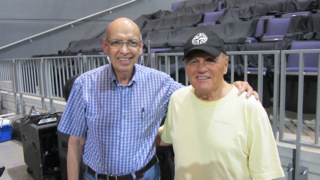 Ernie Bringas, co-founder of the original Rip Chords, with Terry Johnson, one of the other four singers in the original group. Photo taken after a Beach Boys concert in Phoenix, Arizona.